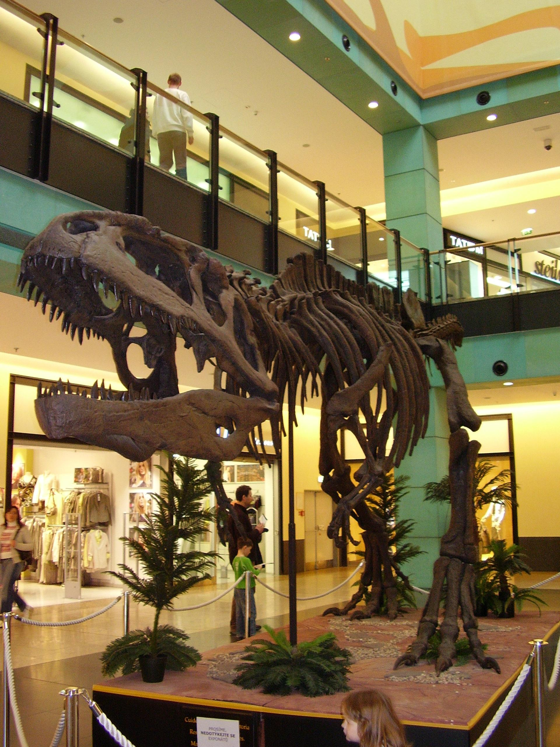 Skeleton of a giant argentinian theropod dinosaur Giganotosaurus carolinii. Exhibit in Prague (2007).